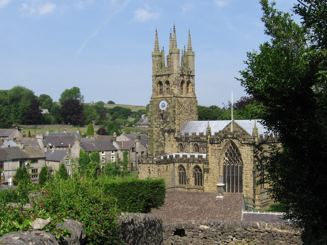 Tideswell - church and village rooftops View from sharp bend in Church Lane.